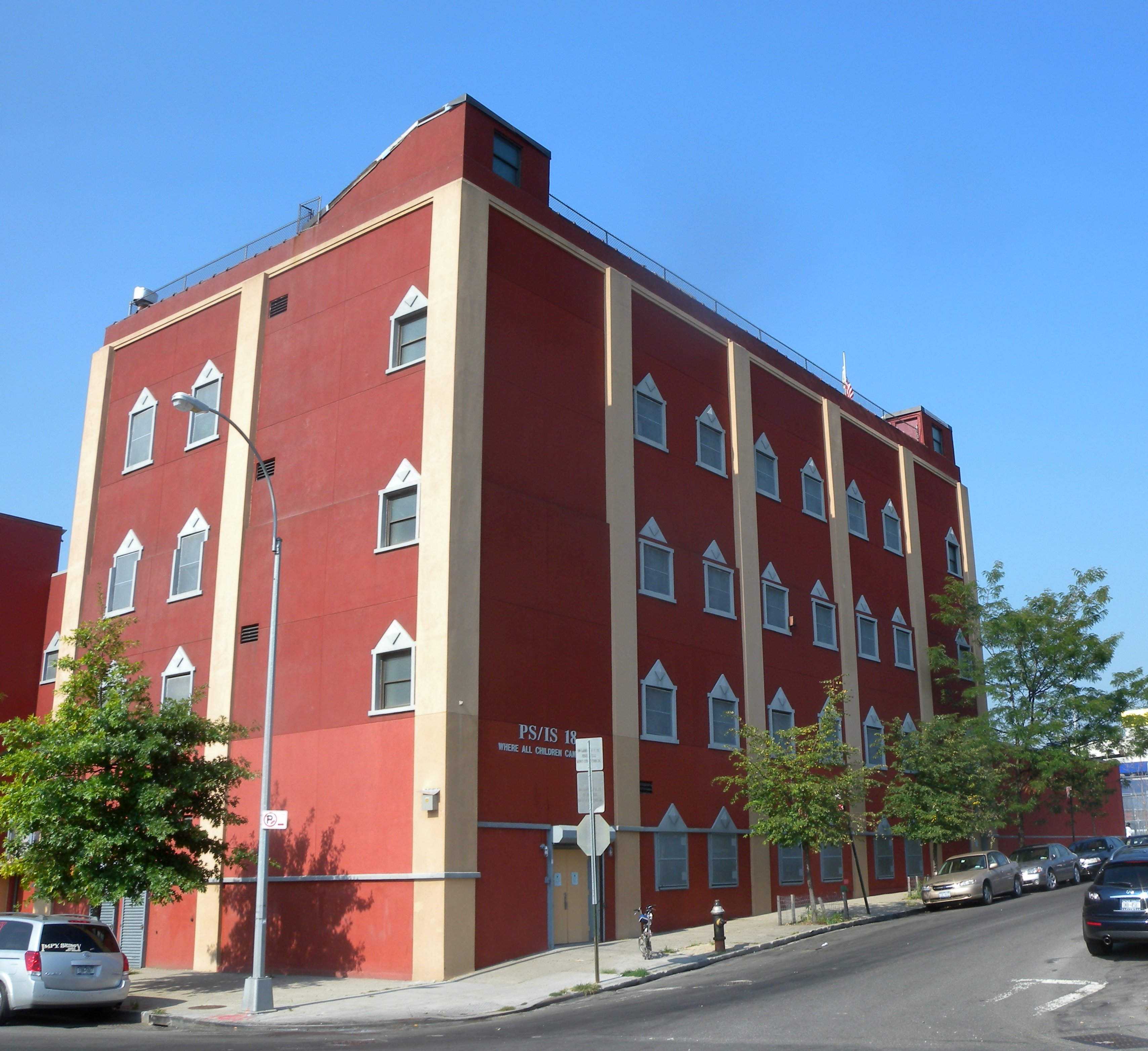 Looking west at PS/IS 18 on a sunny morning.